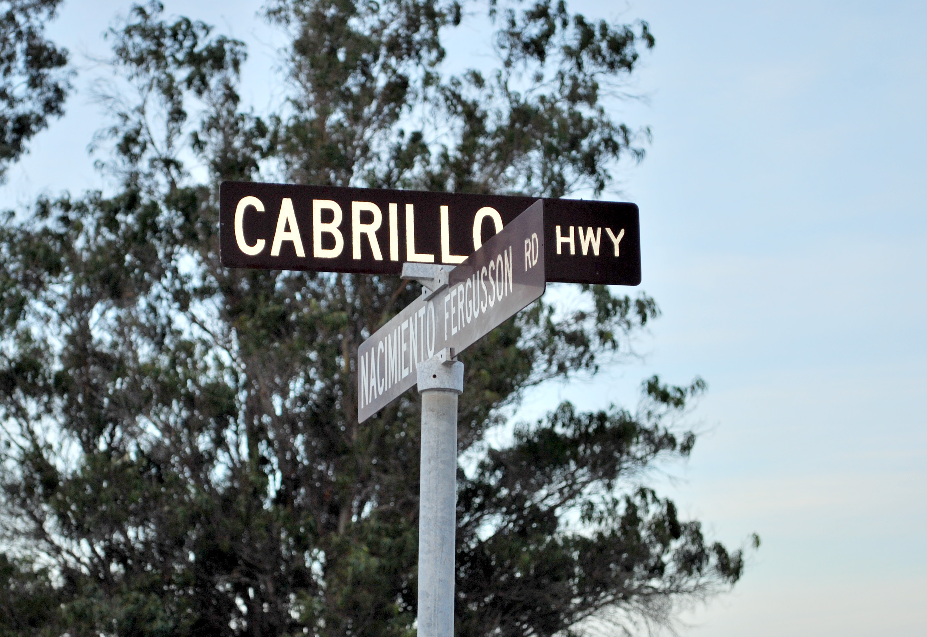 The road sign from the junction of Nacimiento-Fergusson Road and Highway 1 (Cabrillo Hwy) — or the Pacific Coast Highway—California State Route 1. In Monterey County, Northern California.